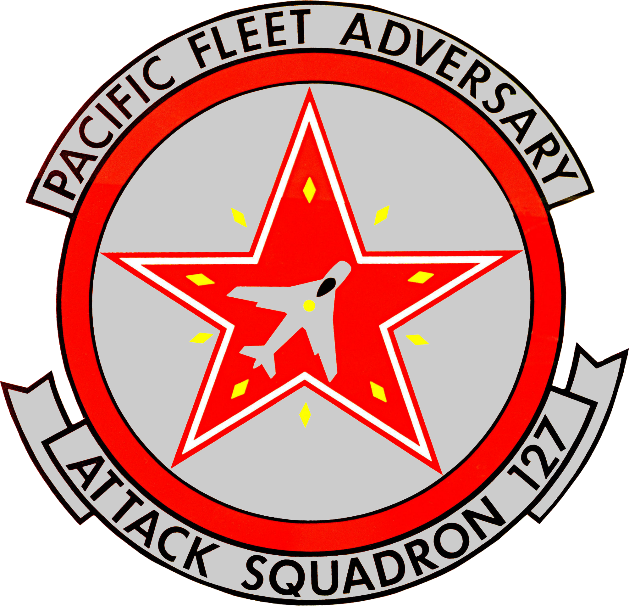 Insignia of the U.S. Navy Attack Squadron 127 (VA-127) "Royal Blues". The insignia was approved by the United State Navy Chief of Naval Operations (CNO) on 10 August 1980. Colours for the red star insignia were: a gray background outlined in black, red and black lines; a red star outlined in white and red; gray aircraft with a black canopy; yellow compass markings; gray scroll outlined in black with black lettering. A modification to the red star insignia was approved by CNO on 25 October 1984. This modification added an upper scroll with Pacific Fleet Adversary in black lettering. The squadron nickname was changed to "Cyclons" in 1981.